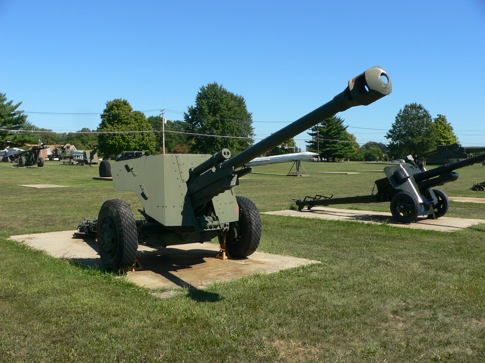 Picture taken by myself, Mark Pellegrini, at the United States Army Ordnance Museum (Aberdeen Proving Ground, MD)